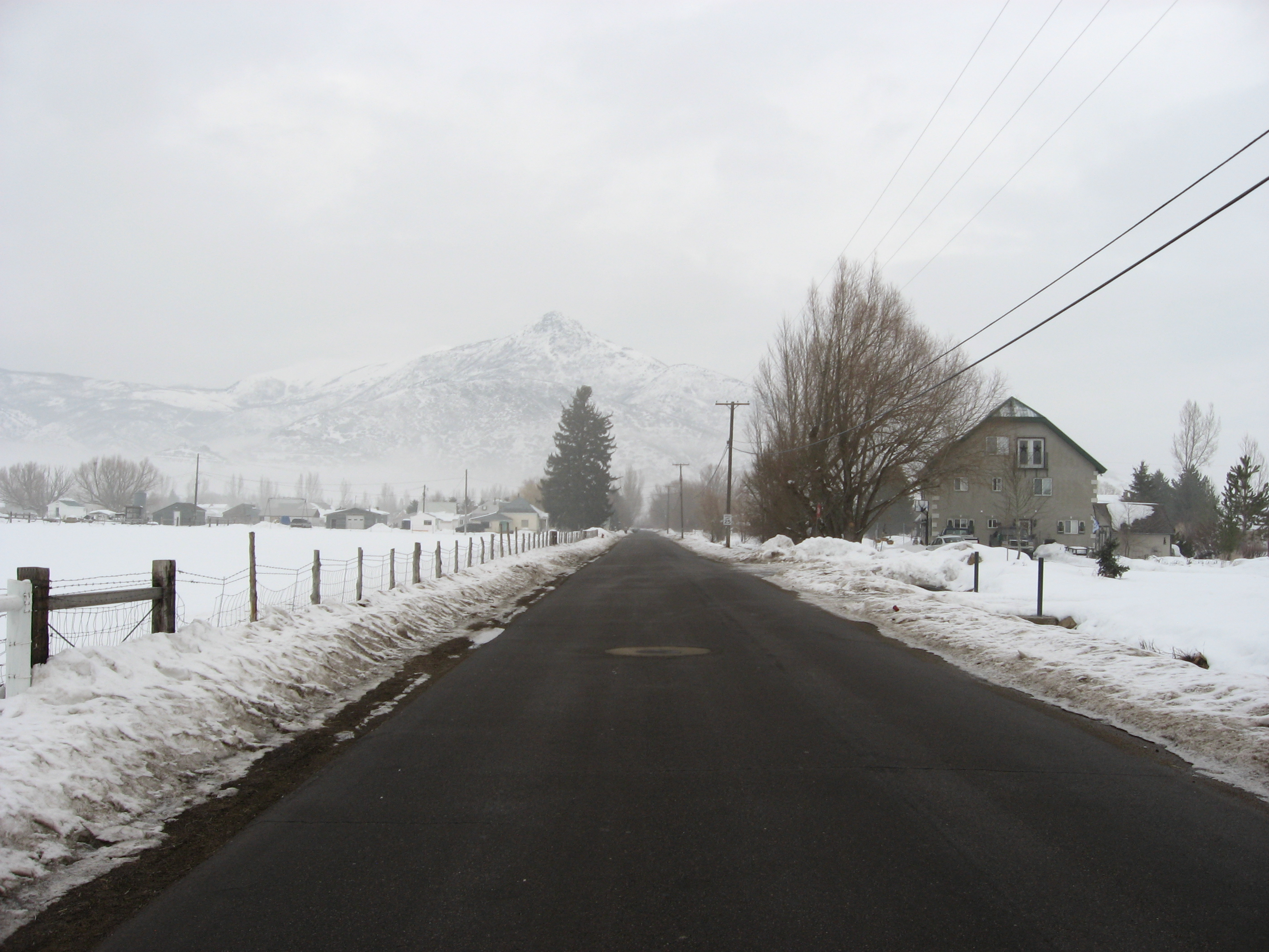 Midway is a city in Wasatch County, Utah, United States.